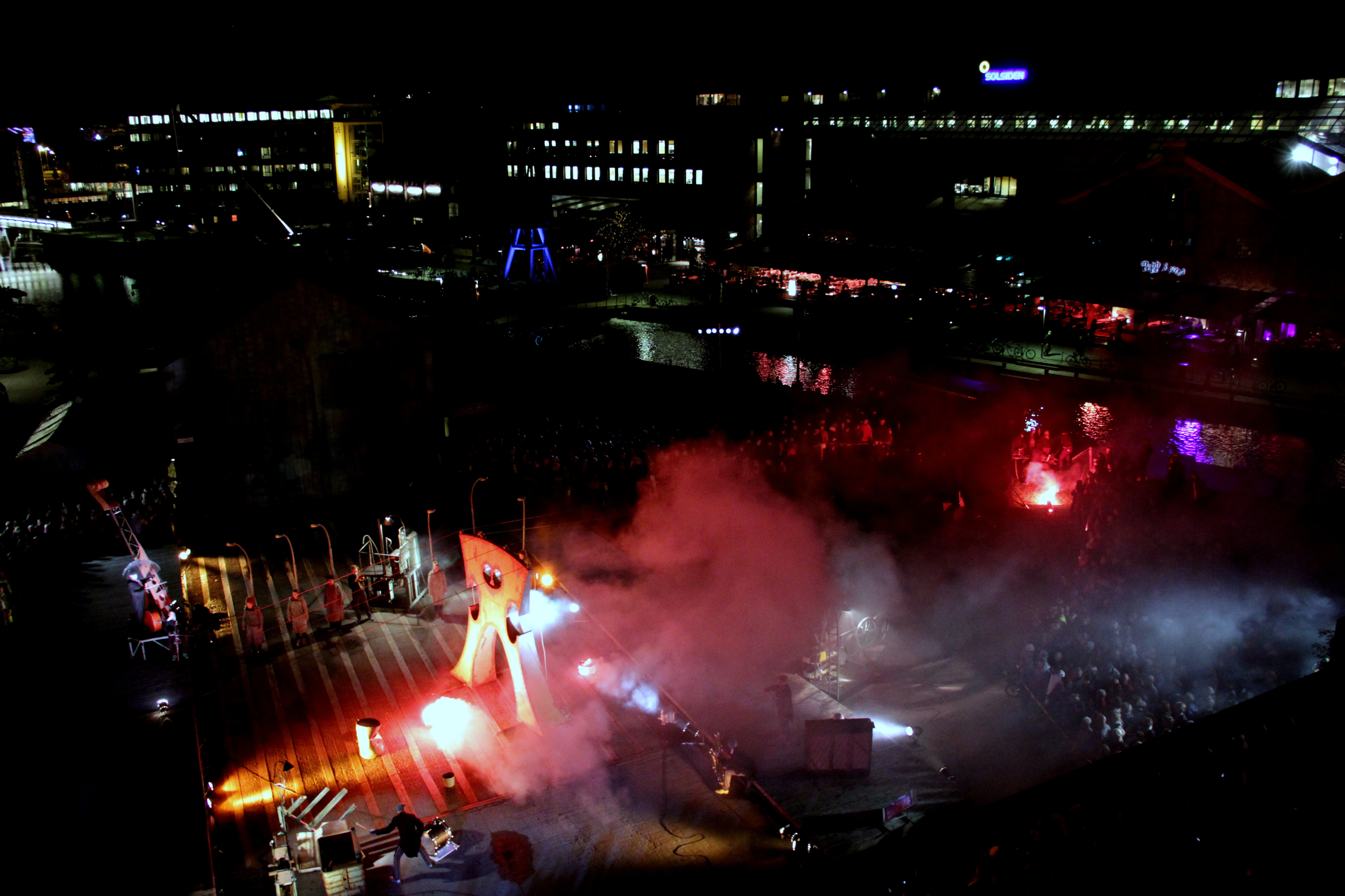 Mekatonia. Cooperation between the theater company Cirka Teater and Trondheim Chamber Music Festival (Kamfest) 2012